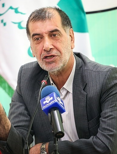 Mohammad Reza Bahonar speaking in Islamic Society of Engineers Congress as Secretary-General